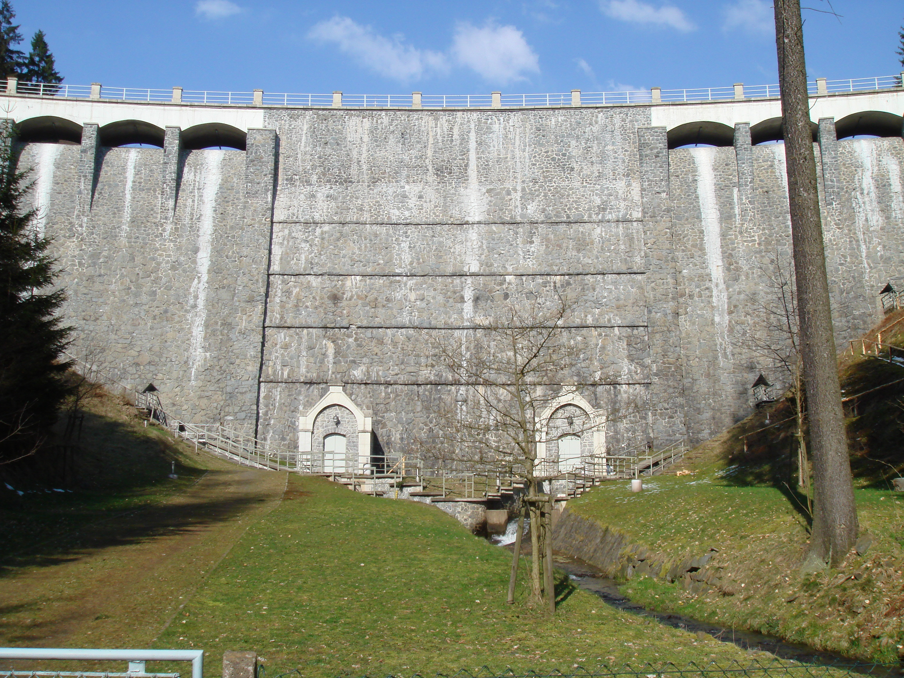 Dam Neustadt